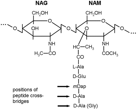 Μόριο πεπτιδογλυκάνης. NAG: Ν-ακετυλογλυκοζαμίνη, NAM: Ν-ακετυλομουραμικό οξύ